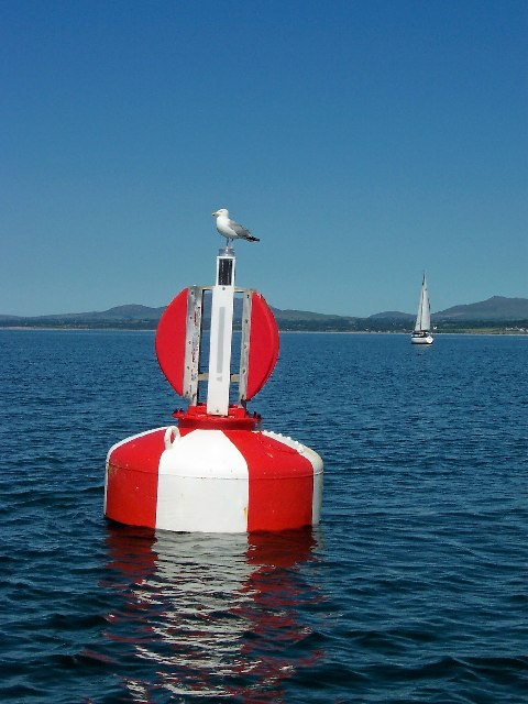 The Fairway Buoy, Tremadog Bay. The coastline near Criccieth in the background